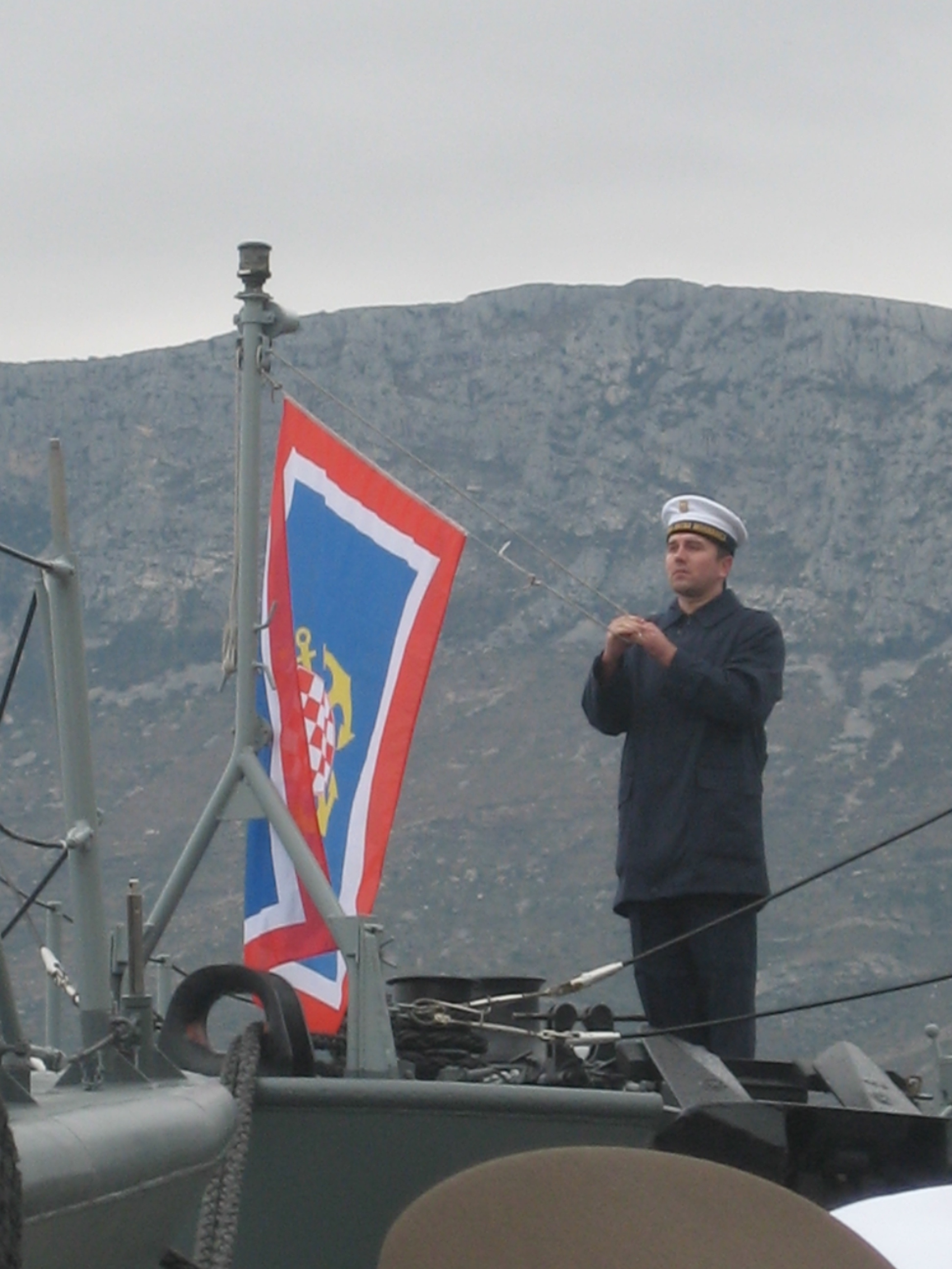 RTOP-41 Vukovar